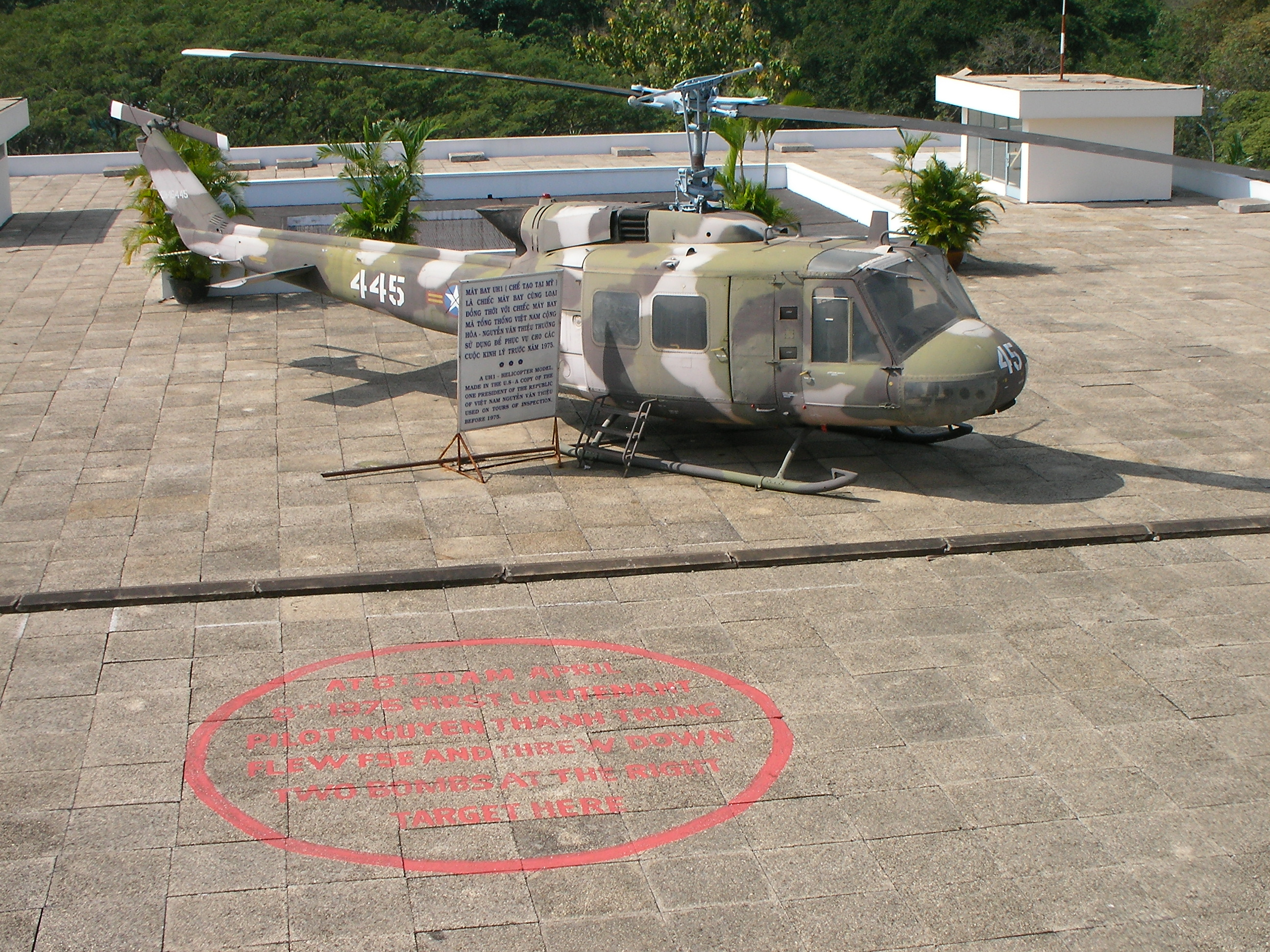 Heliport on the rooftop of the Reunification Palace, Ho Chi Minh City, Vietnam. The two red circles (one not visible) are the places that pilot Nguyễn Thành Trung bombed in 1975.